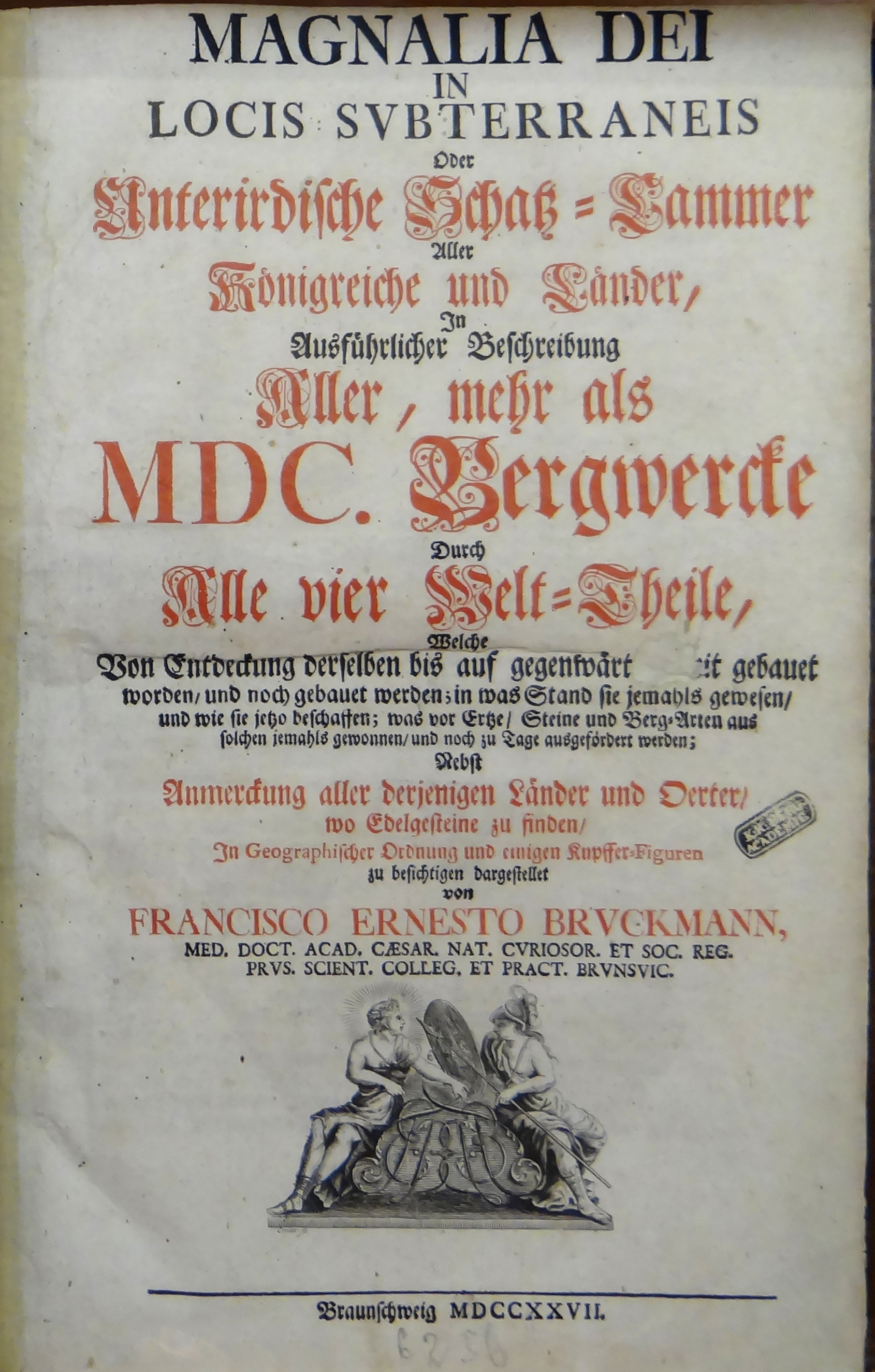 Franz Ernst Brückmann: Magnalia Dei in locis subterraneis, 1727 (Selmec Museum Library)